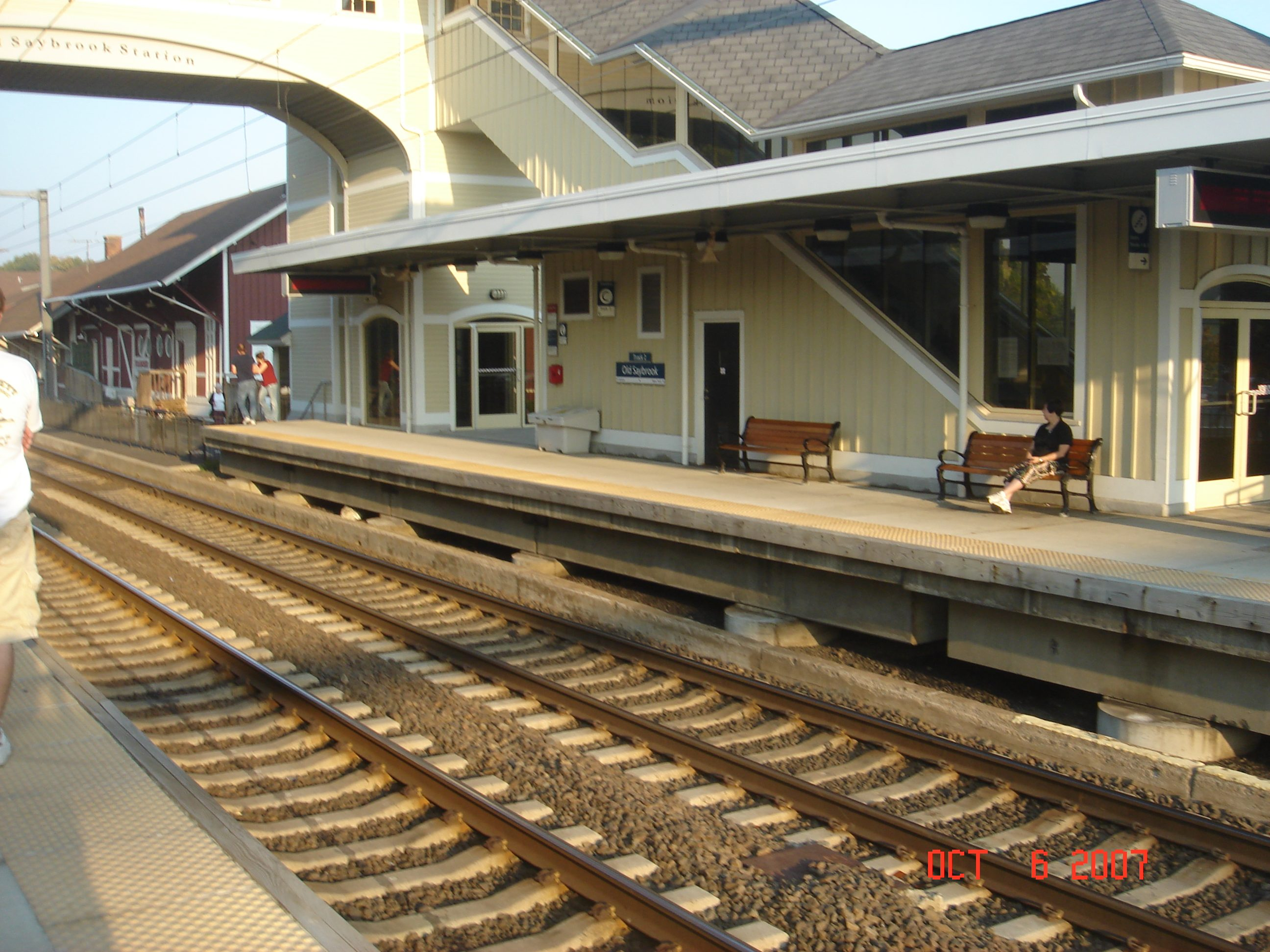 Looking at the Track 2 platform.